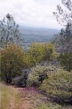 The Pine Hill Preserve is located in the Sierra Nevada foothills, in El Dorado County, California. The view from the top of Pine Hill, showing its chaparral and woodlands habitat and red soil. The Pine Hill Ecological Reserv is managed by the Bureau of Land Management, protecting a biodiversity hotspot of rare, endemic, and endangered California native plants.